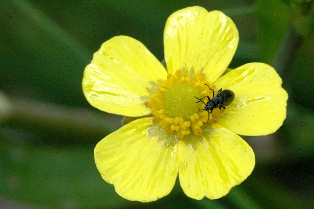 Ranunculus flammula from Commanster, Belgian High Ardennes .